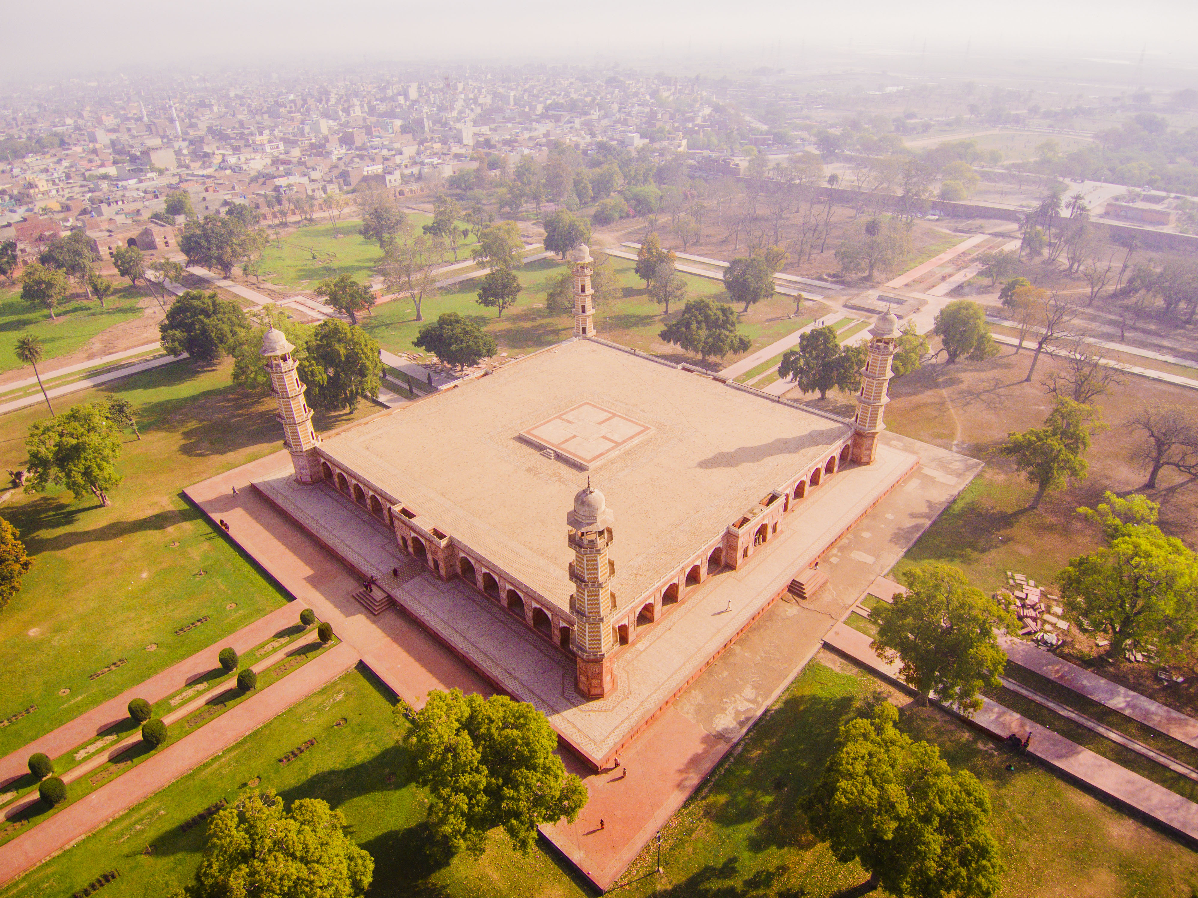 Early morning at Jahangir's Tomb. That small stage/platform right in the middle of the roof intrigued me... After a quick search, came across an article called "An Architectural Question From History". Some believe there existed a dome here, which was possibly removed by #aurangzeb / #bahadurshah / #ranjitsingh (different traditions, different conclusions). While others have a rather simple explanation: it is as it is merely on the directions of the #emperor himself :p. This is a photo of a monument in Pakistan identified as the PB-64